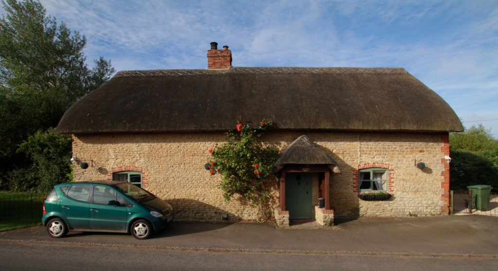 The Thatch, The Lane, Lyford, Oxfordshire (formerly Berkshire), seen from the north